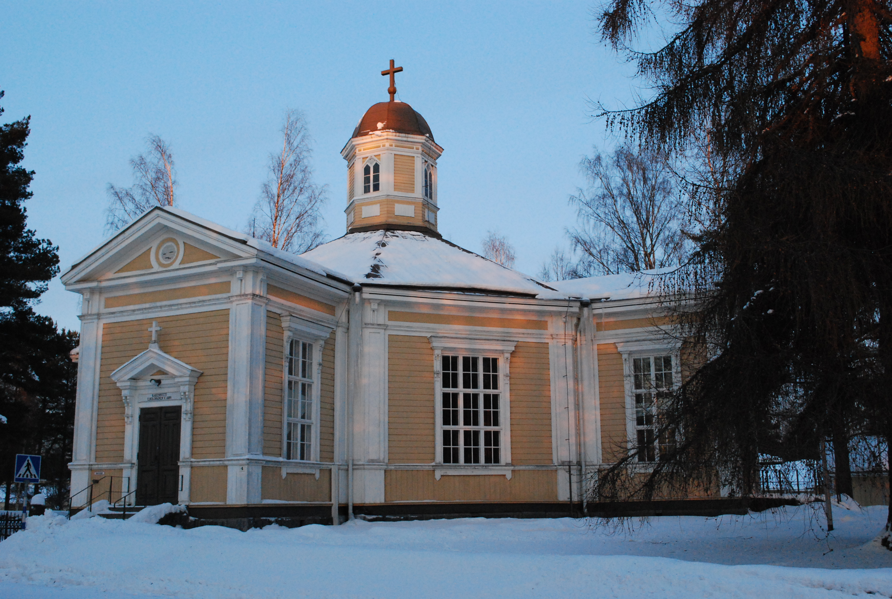 Sumiainen church in Finland. Church was designed by architect Theodor Granstedt and it was completed in 1889.